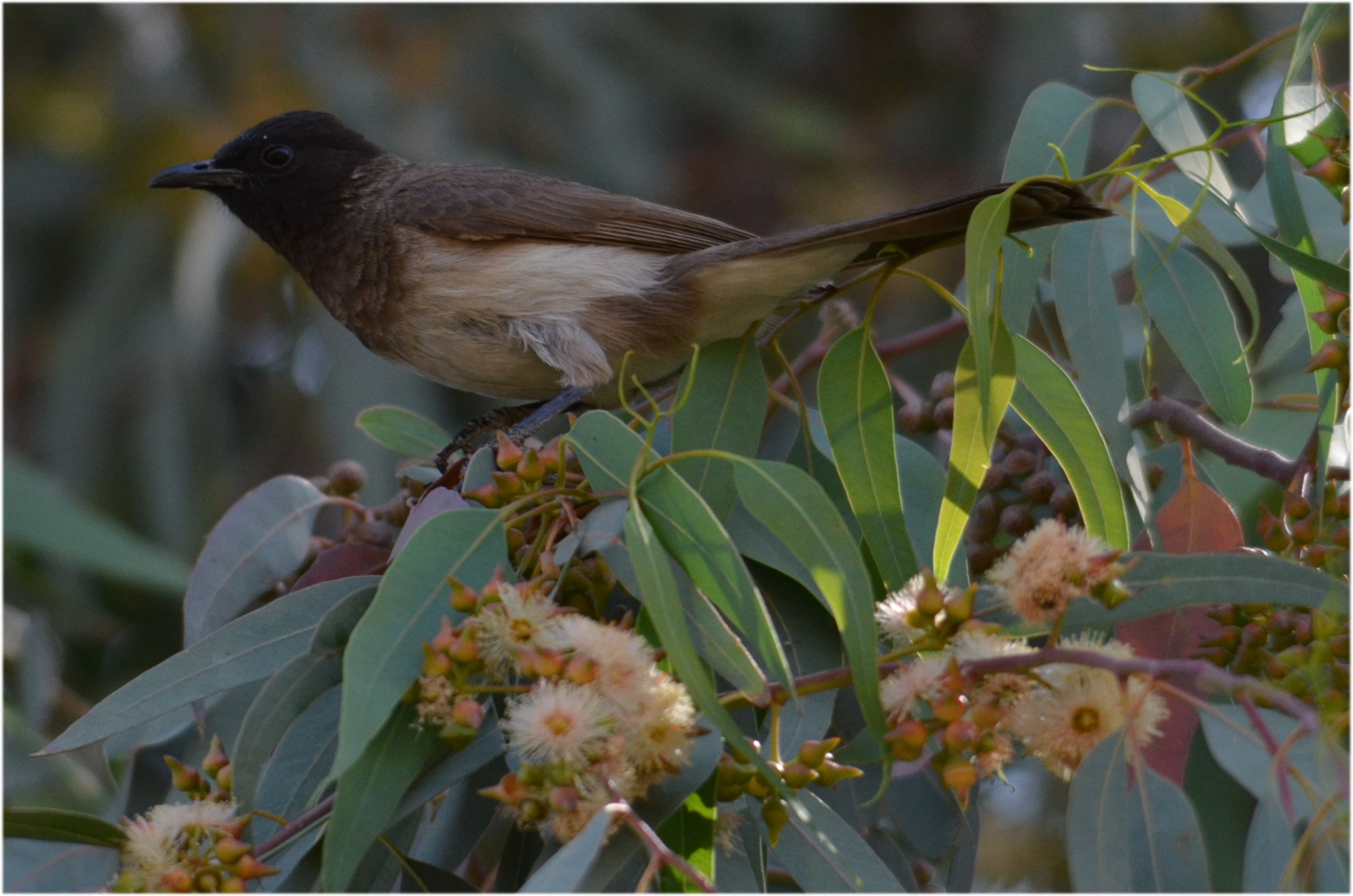 Common bulbul